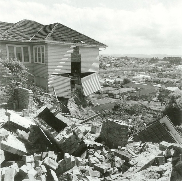 Title: Social Services - Civil Defence - Disasters Publicity Caption: Grey Lynn Housing Slip Photographer: J. Waddington December 1981, Auckland On December 3 1981 a landslide destroyed homes around Herringson Avenue and Shirley Road in the Auckland suburb of Grey Lynn. Archives New Zealand Reference: AAQT 6539 8 / R11828